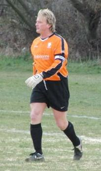 Paul Hyde in action in 2010. I took this picture.